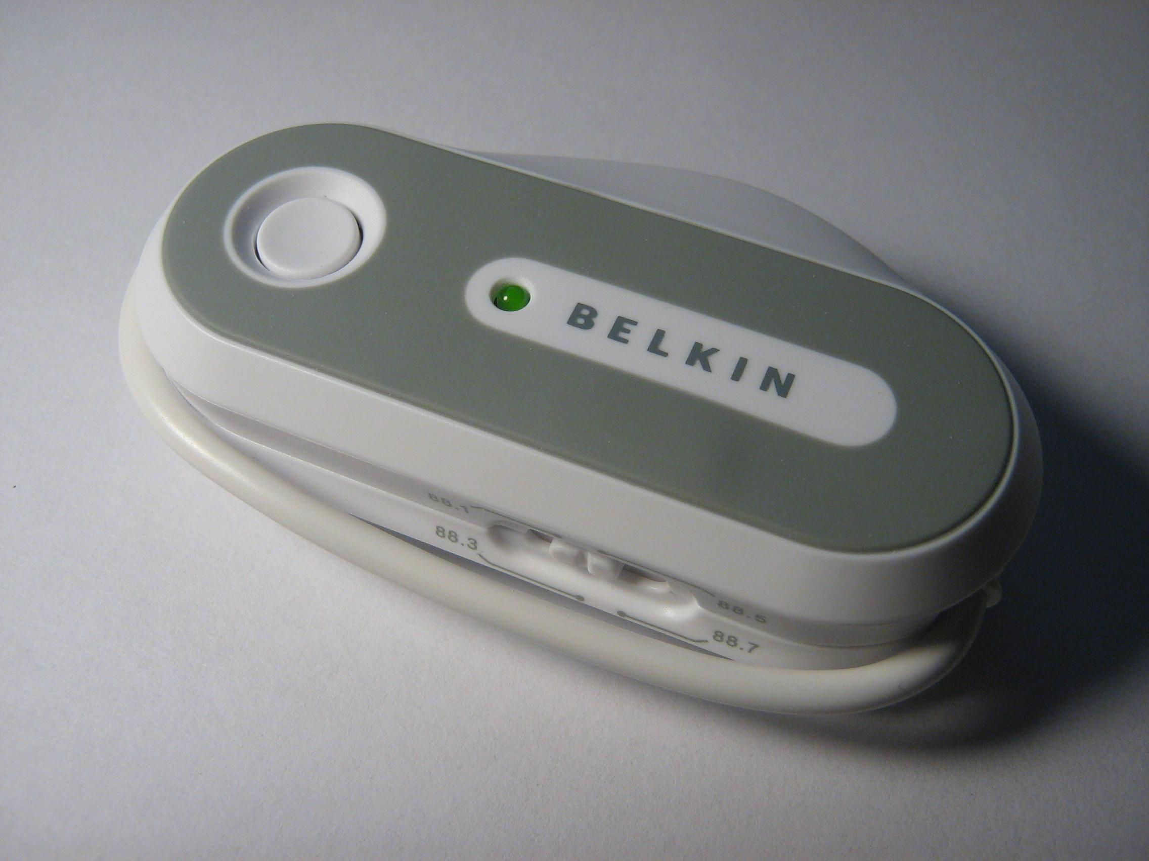 A Belkin Tunecast low powered FM transmitter Ozguy89 (talk) 03:43, 18 January 2008 (UTC)